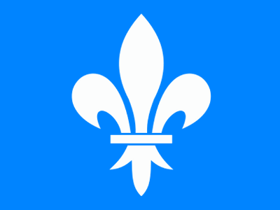 Royal flag of the Kingdom of Tristain from Zero no Tsukaima